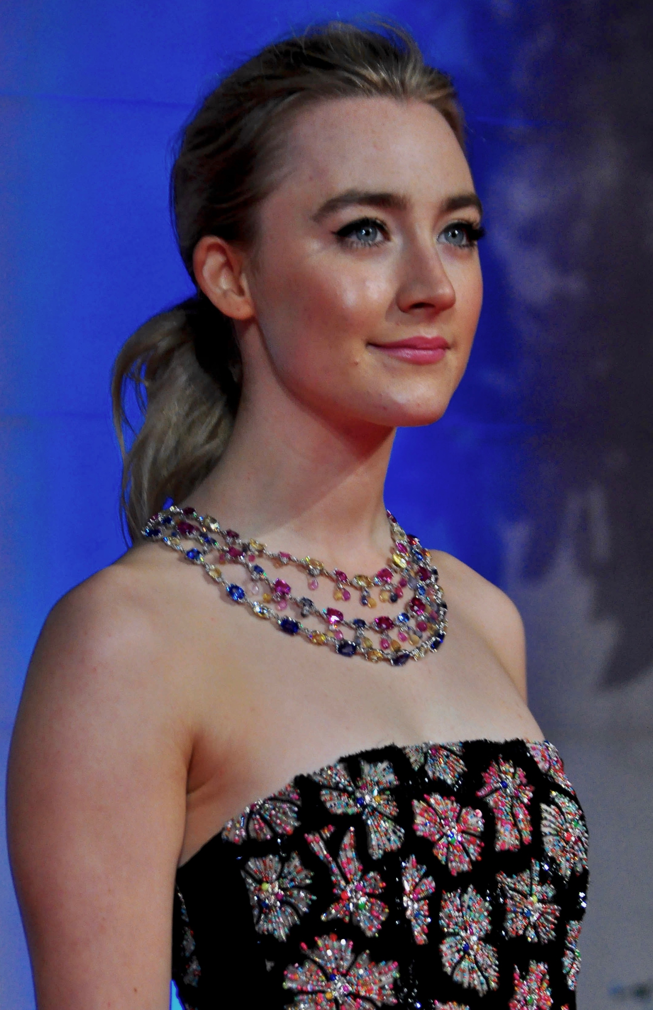 Saoirse Ronan at BAFTA 2016